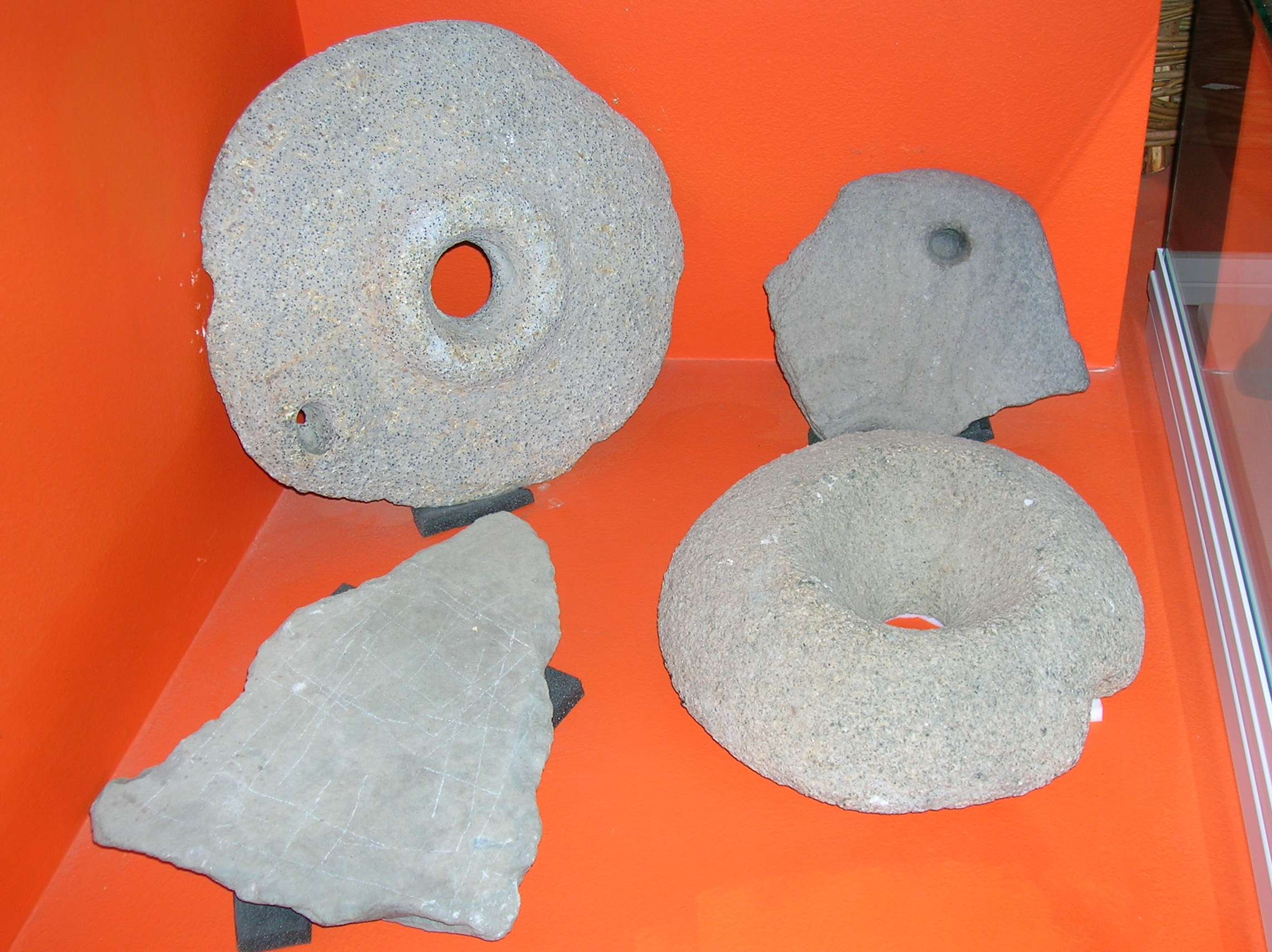 Quern stones in the Whithorn Museum, The Machars, Dumfries and Galloway, Scotland.